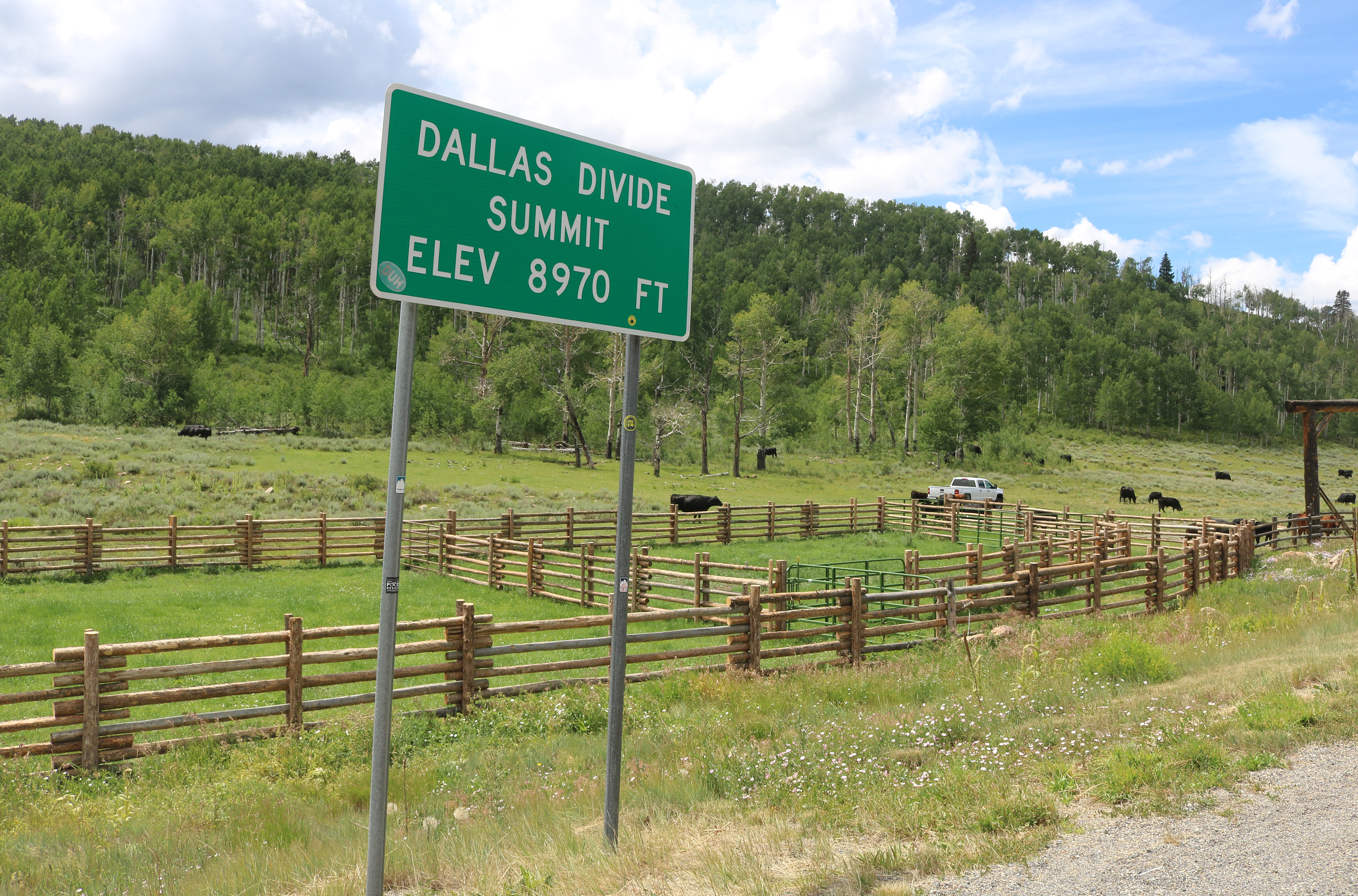 The sign at the top of Dallas Divide on Colorado State Highway 62. The sign is parallel to the highway on the south side.